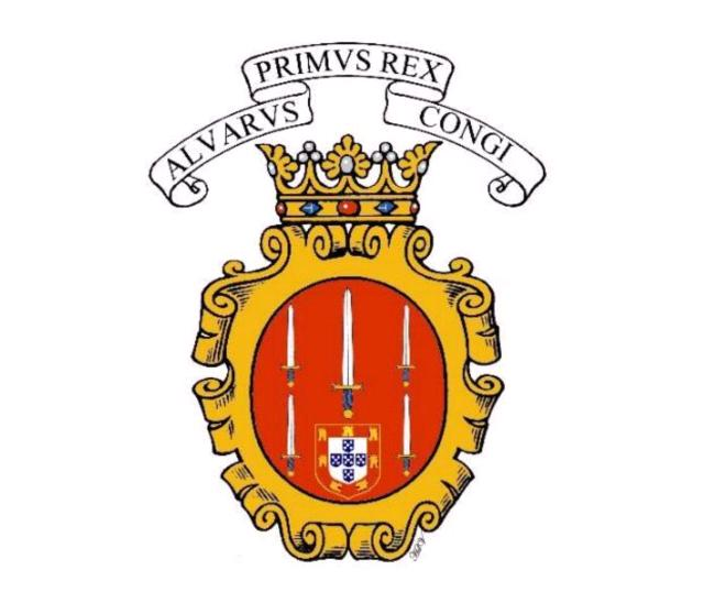 Coat of Arms issued to King Alvaro I